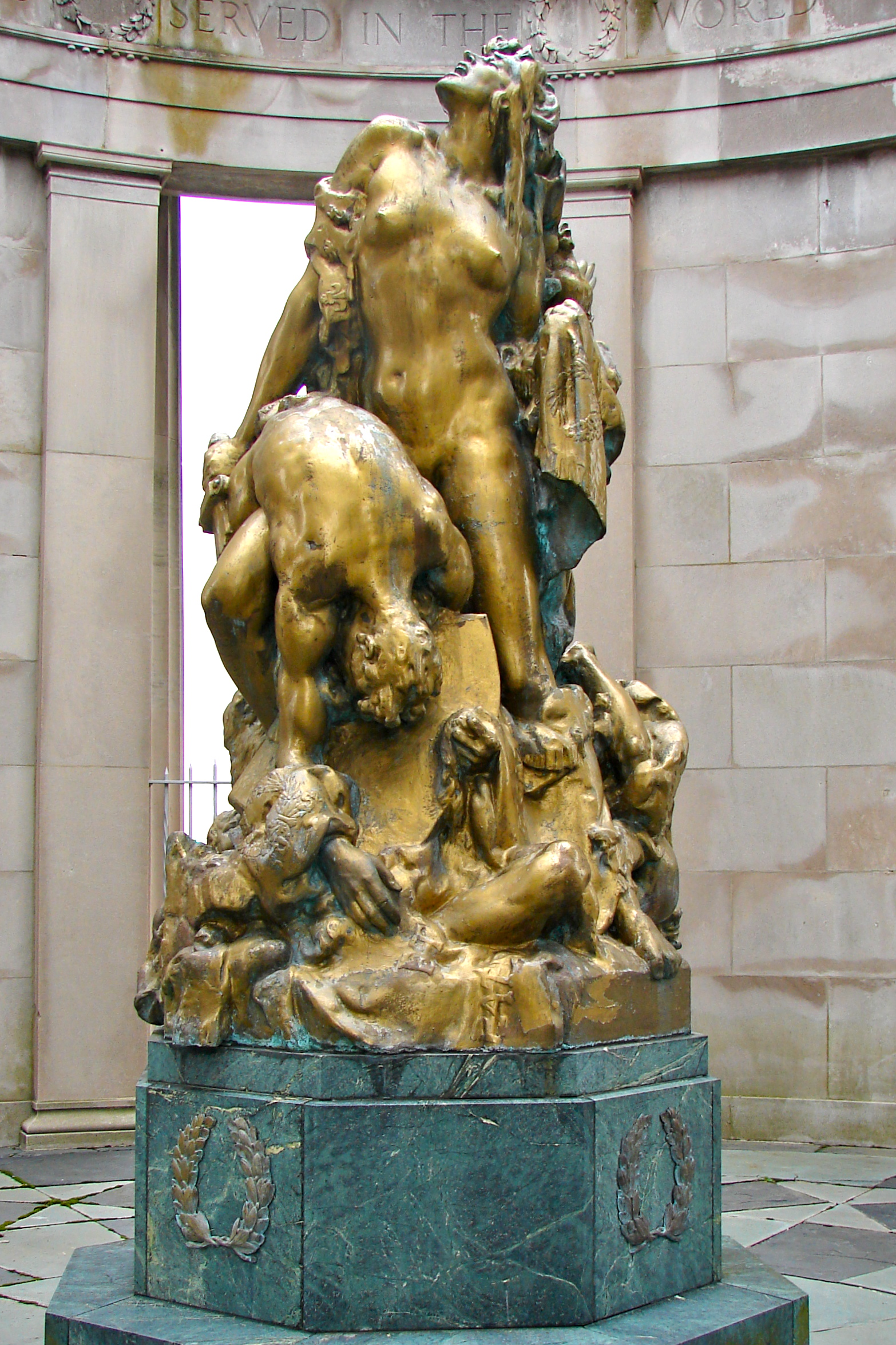 Interior of World War I Memorial, in Atlantic City, New Jersey, on the NRHP since August 28, 1981. At O'Donnell Pkwy., S. Albany and Ventnor Aves. right as you enter Atlantic City from the main bridge. Erected 1922, refurbished recently.